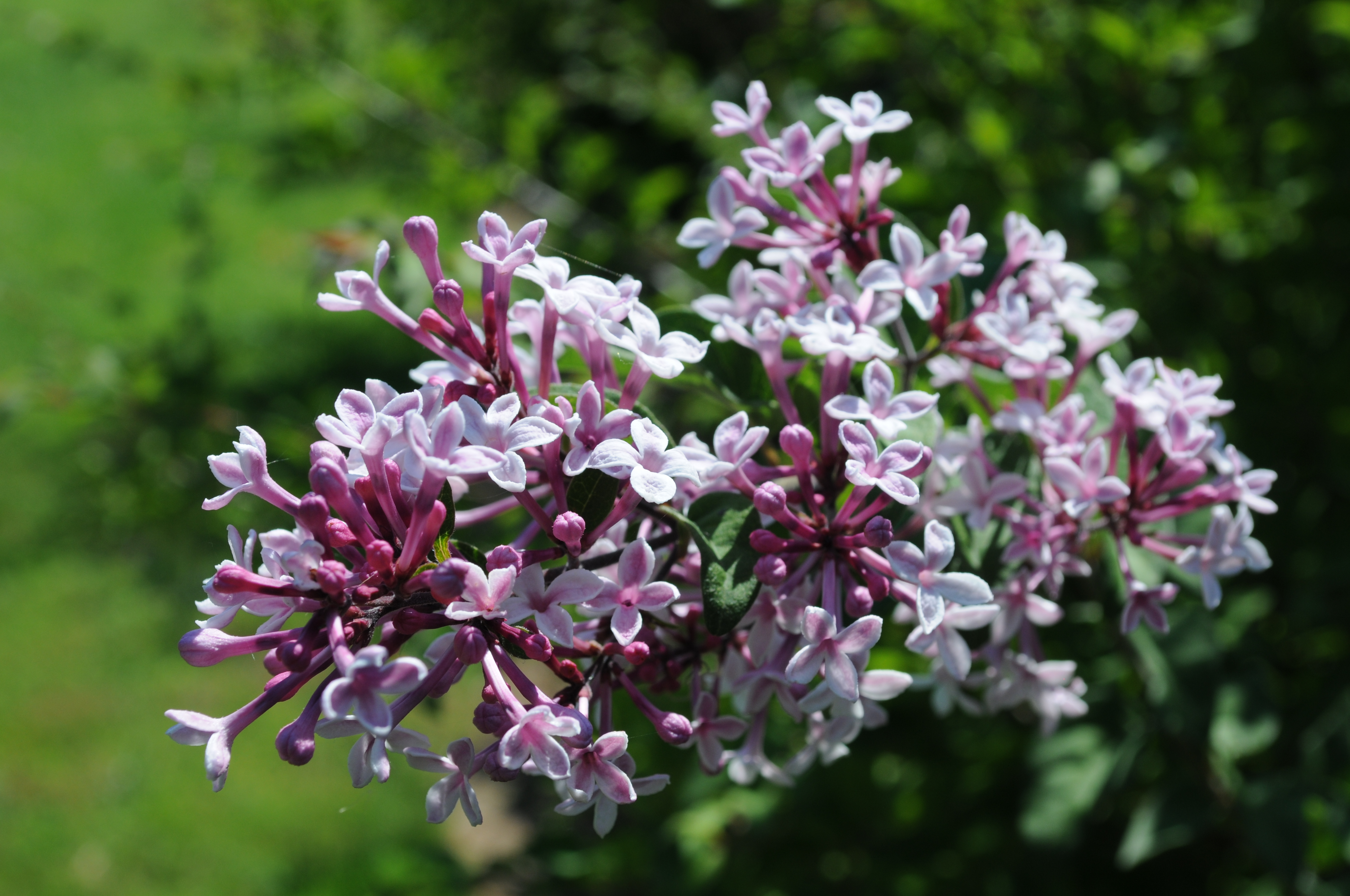 Closeup on small pink flowers of a Syringa pubescens subsp. microphylla 'Superba' at Hulda Klager Lilac Gardens in Woodland, Washington. Some buds are closed, some are open, and some are partially open.